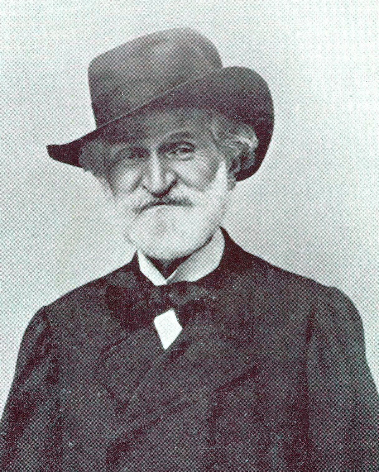 Detail of a photograph of Giuseppe Verdi taken at Montecatini Terme by Pietro Tempestini.